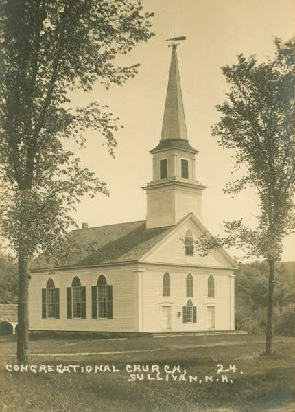 Congregational Church, Sullivan, New Hampshire. It was completed and dedicated December 7, 1848.